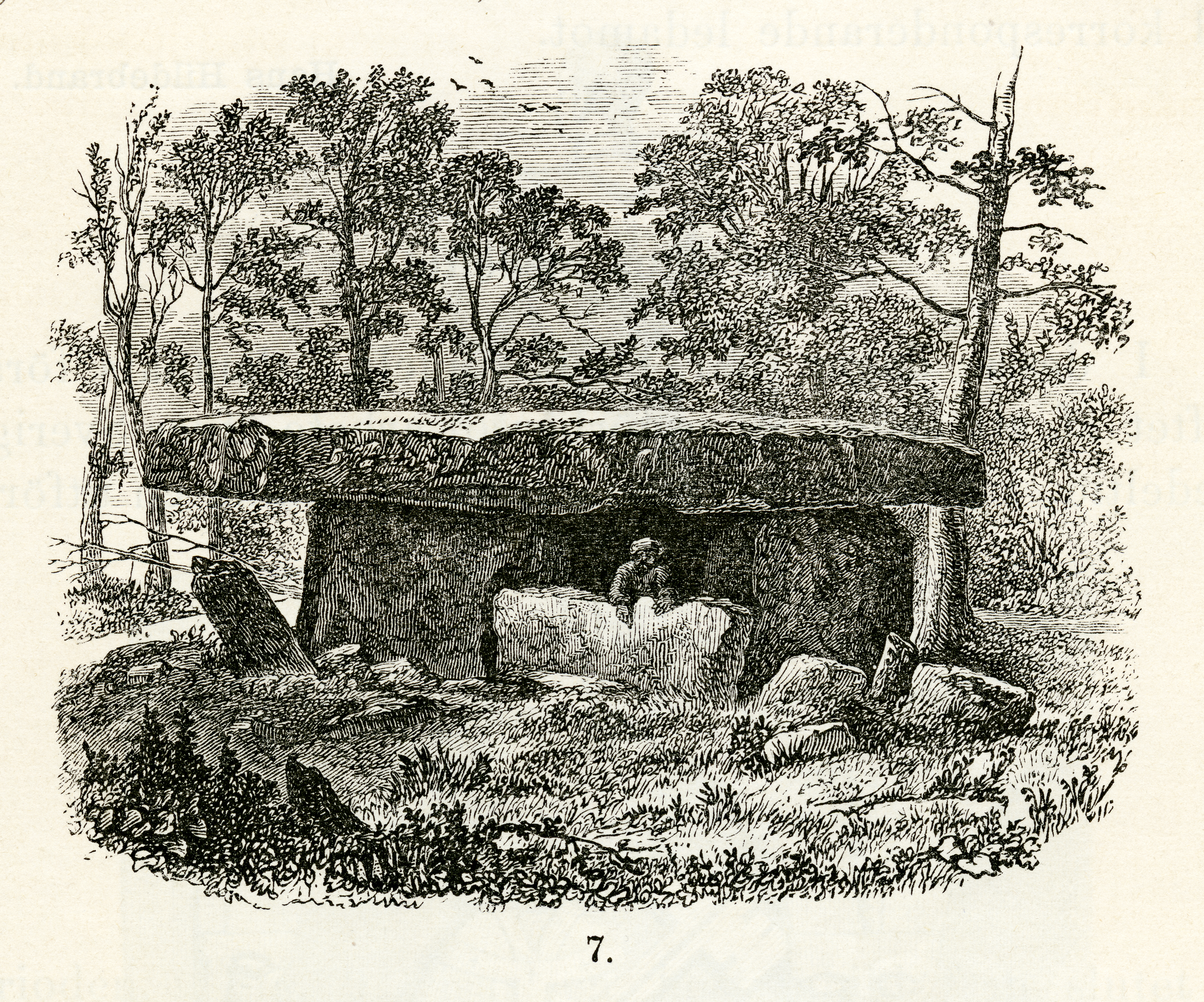 Dolmen from Godavari district, Andhra Pradesh, India. Woodcut from the article "Indiska fornsaker" by Hans Hildebrand in Kongl. Vitterhets Historie och Antiqvitets Akademiens Månadsblad (1880). The picture to the article is from Rude Stone Monuments in all Countries (1872) by James Fergusson.